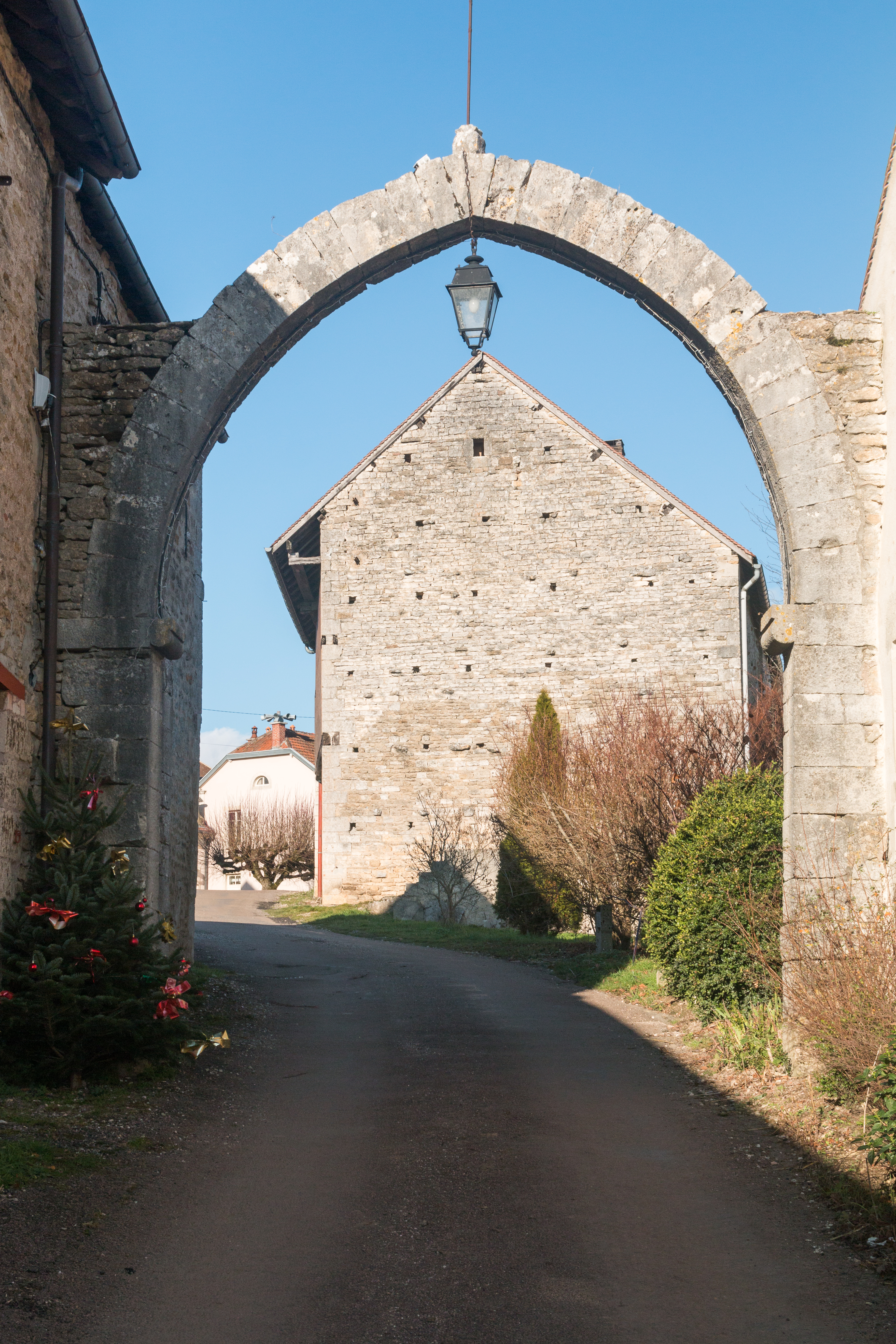 Gate of Saint Christophe in Mont-Saint-Jean, Côte-d'Or.